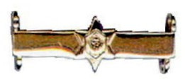 Bar to the iPhrothiya yeGolide - Golden Protea, post-nominal letters PG, awarded to persons who have distinguished themselves by exceptional leadership or exceptional meritorious service and the utmost devotion to duty